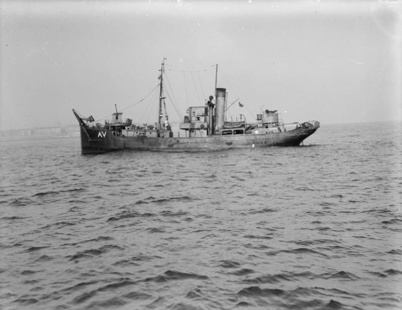 HMT Alvis Underway, coastal waters.